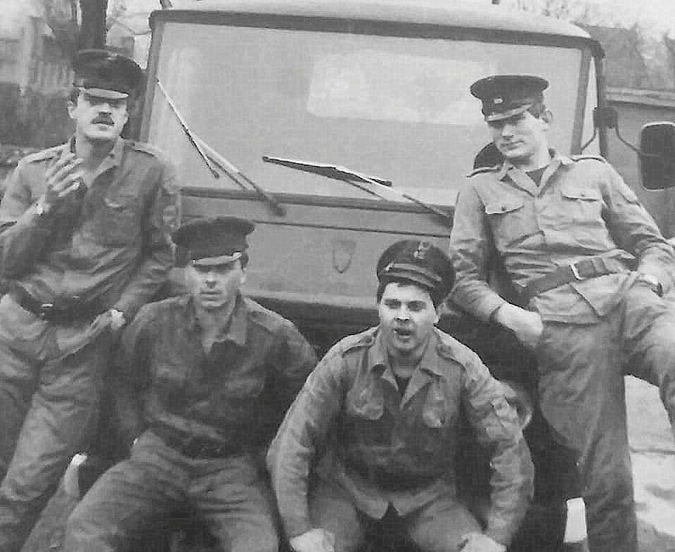 WOP post in Gościce